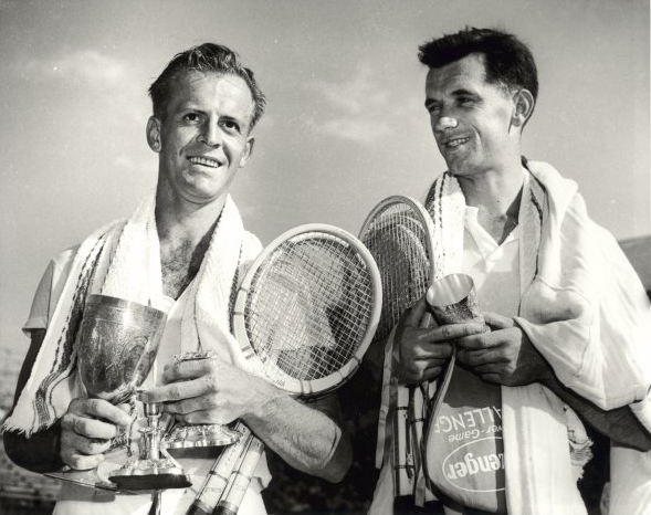 A digital image of the portrait of Rex Hartwig and Mervyn Rose is available from the National Library of Australia (NLA) website. The NLA image contains spurious indexing information along the bottom.